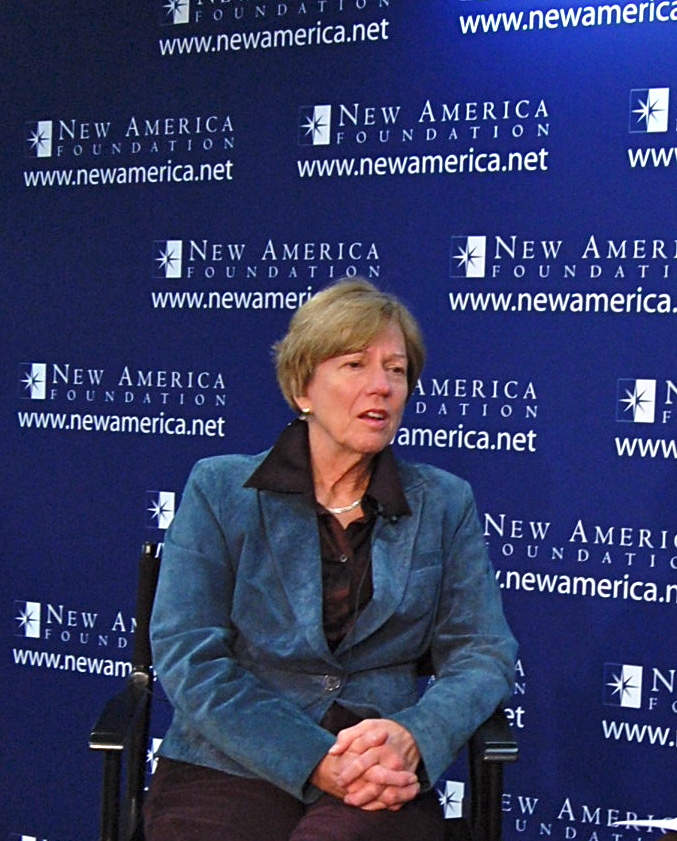 Nina Fedoroff at the New America Foundation